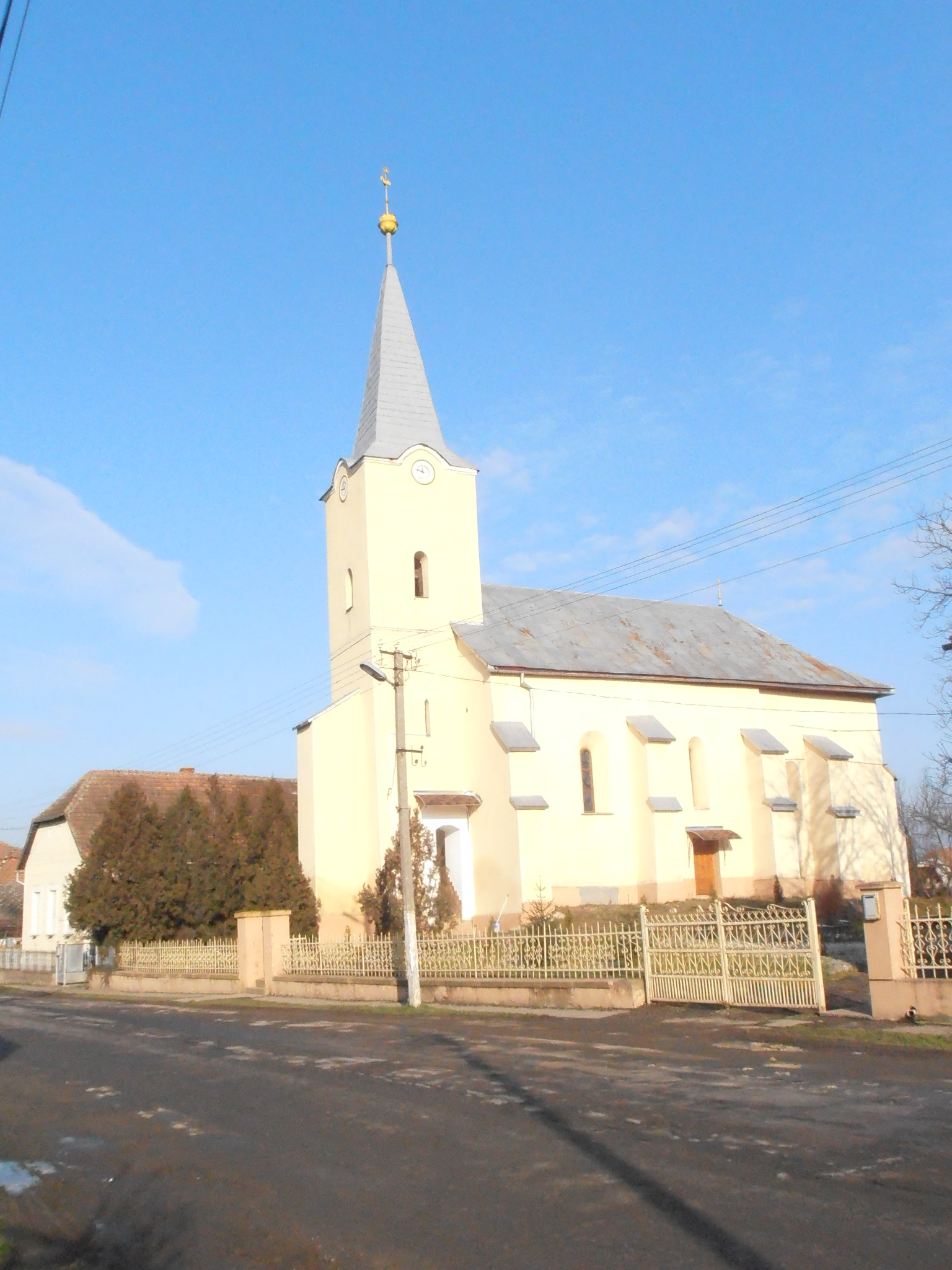 Reformed church in Diyda, Ukraine Beregdédai református templom